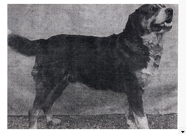 Barri von Herzogbuchee, Swiss Studbook SSB 4520. Barri was one of the founding fathers of the Greater Swiss Mountain Dog; he is a typical early example of early breed standards. He was first shown in 1909.